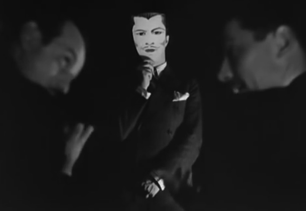 A scene from The Life and Death of 9413: a Hollywood Extra (1928).